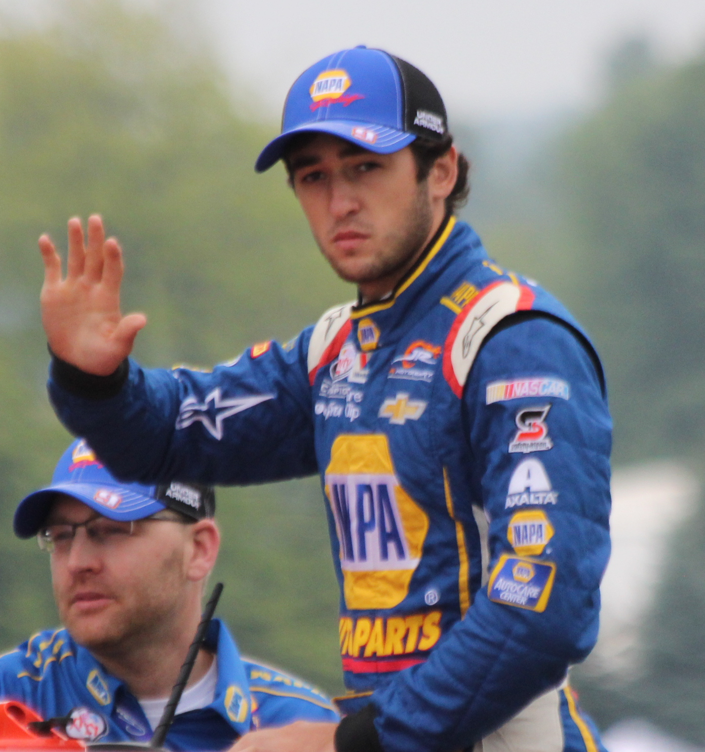 NASCAR driver Chase Elliott waves to the crowd during drivers introduction at the Xfinity Series race at Road America.